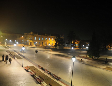 Negotin at night